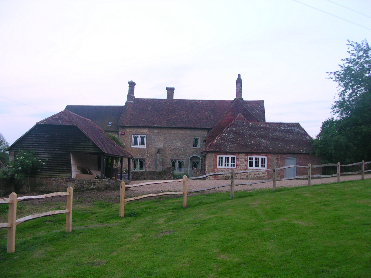 Lodsworth Manor House, Lodsworth, West Sussex, England.